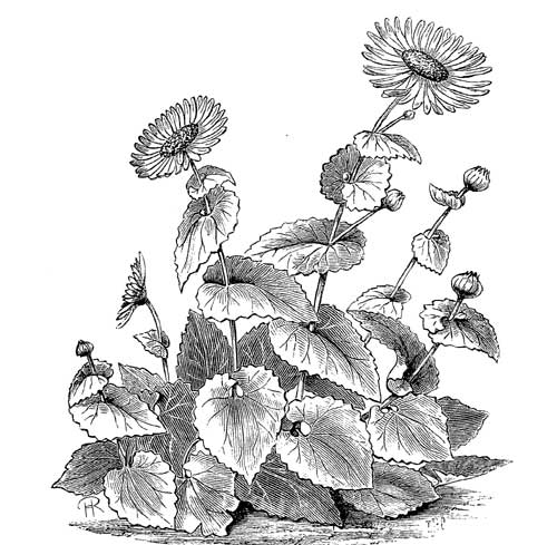 Illustration of Doronicum Caucasicum